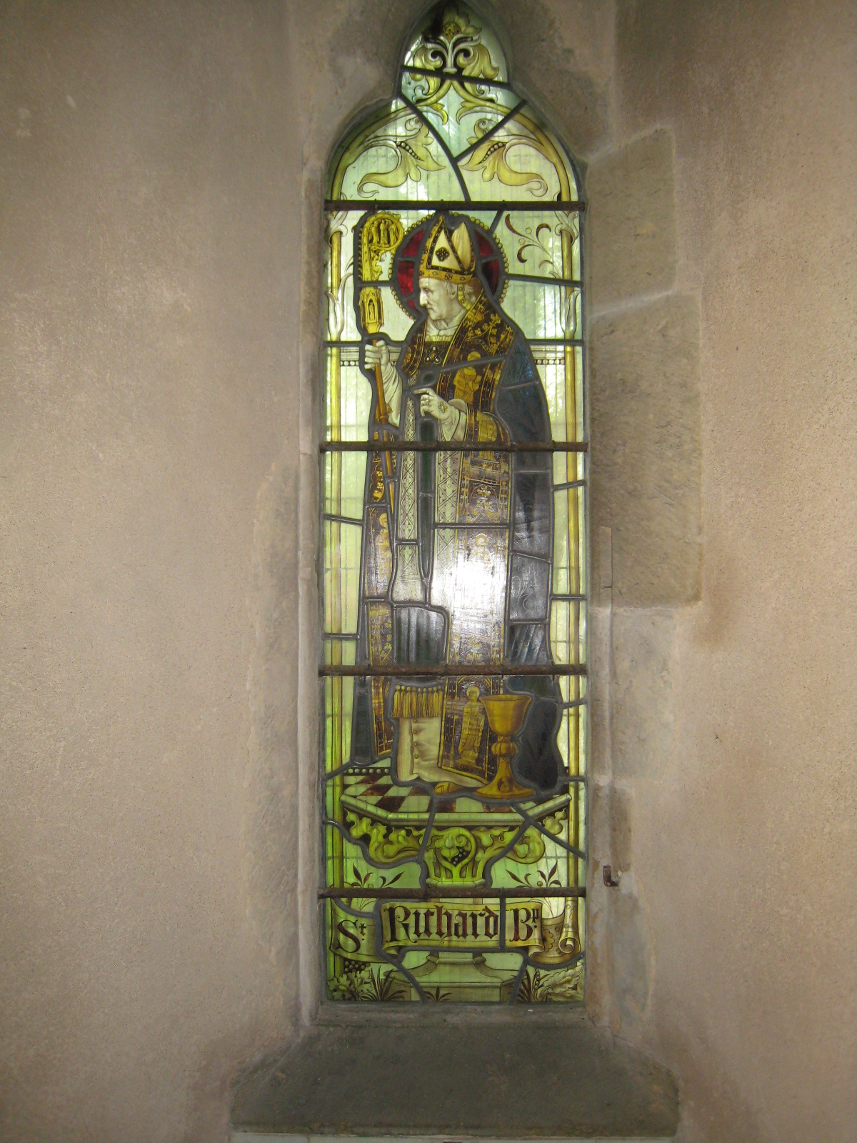 Cocking Church interior - memorial window to Rev Ash